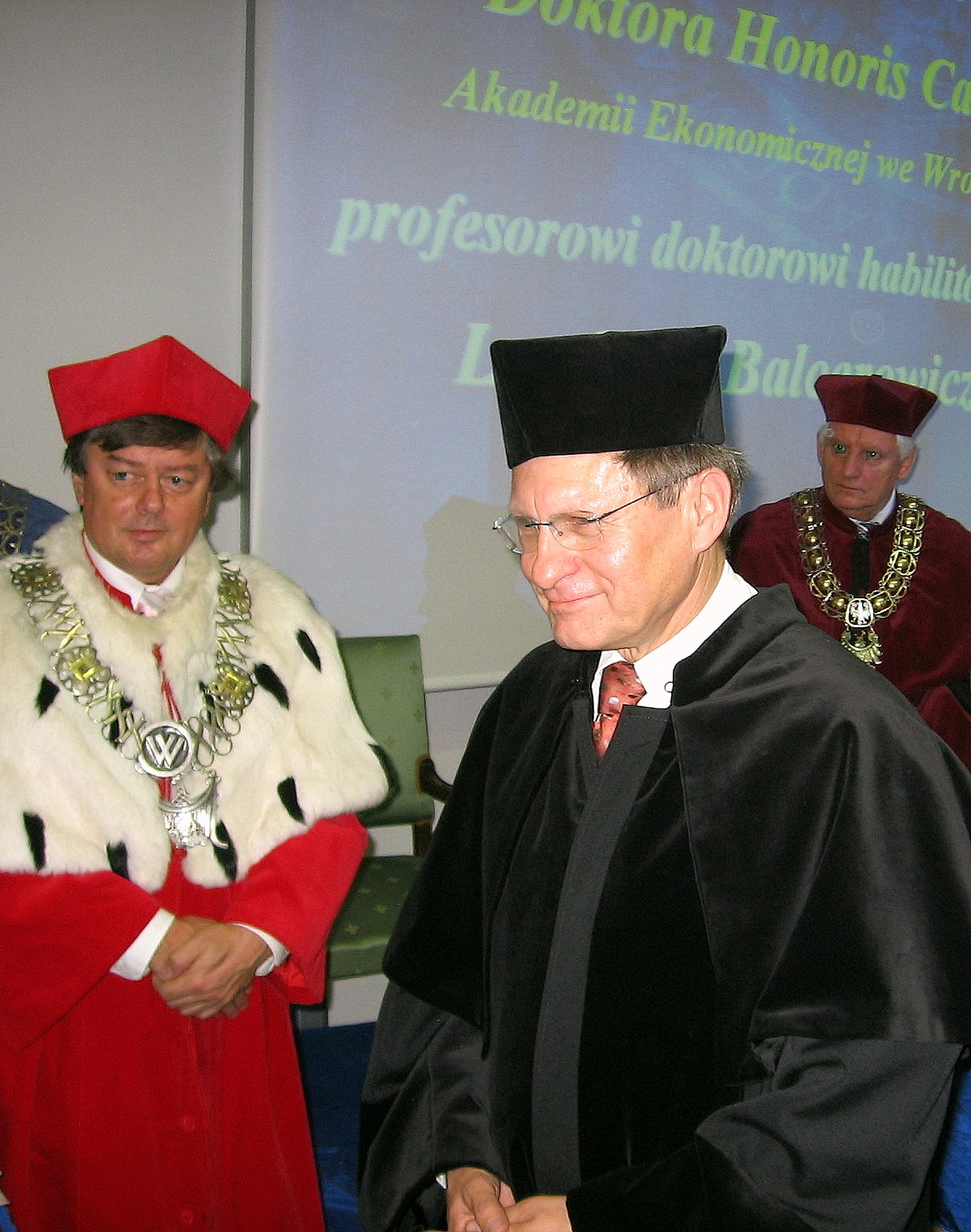 Leszek Balcerowicz - Polish politician and economist during his honoris causa title celebration in Wrocław University of Economics